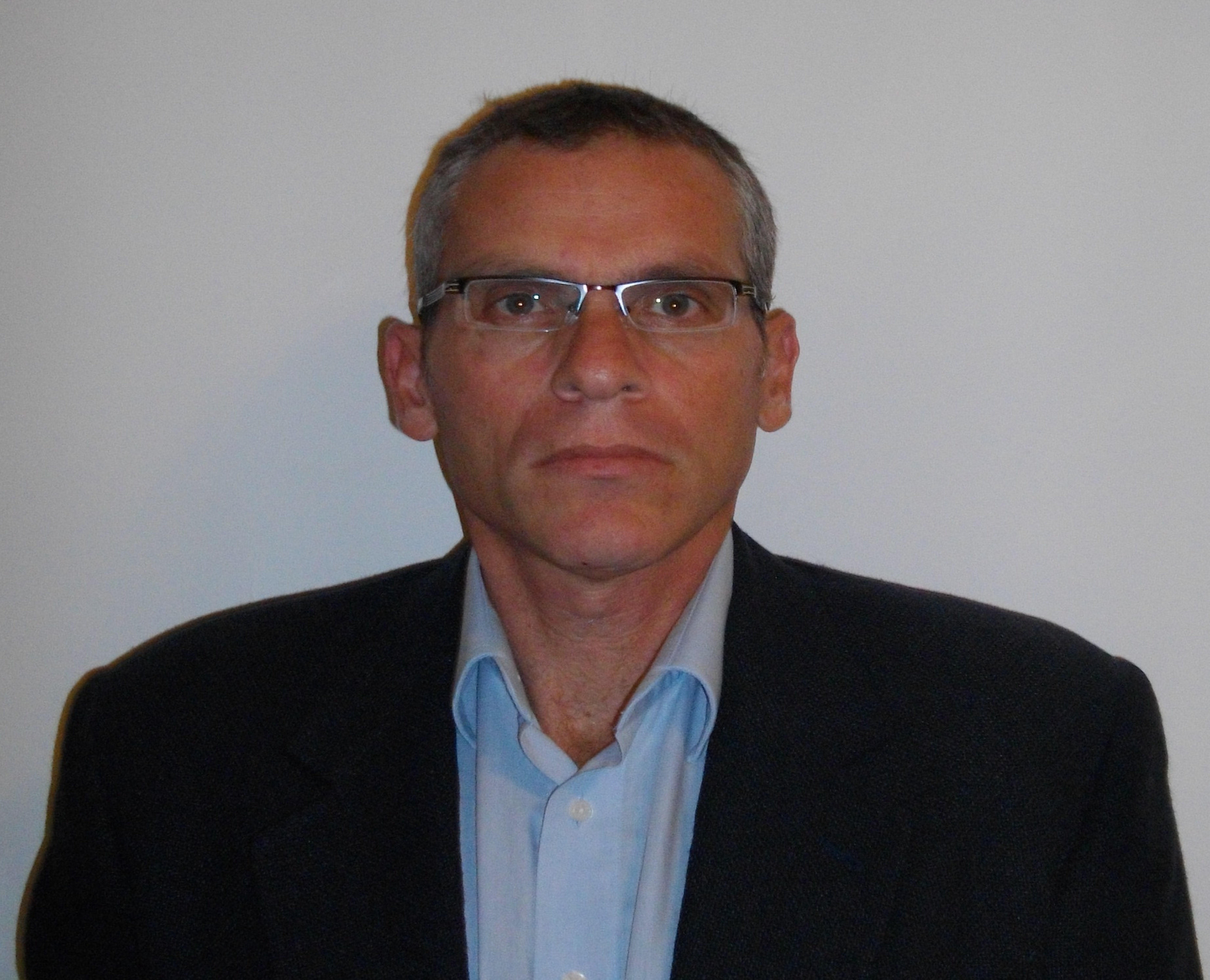 Prof.Fruchter